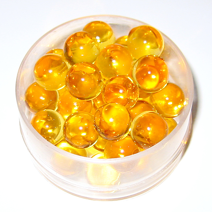 Cod liver oil is a dietary supplement derived from liver of cod fish (Gadidae). As with most fish oils, it contains the omega-3 fatty acids, eicosapentaenoic acid (EPA) and docosahexaenoic acid (DHA). Cod liver oil also contains vitamin A and vitamin D. Historically, it was given to children because vitamin D had been shown to prevent rickets, a consequence of vitamin D deficiency.